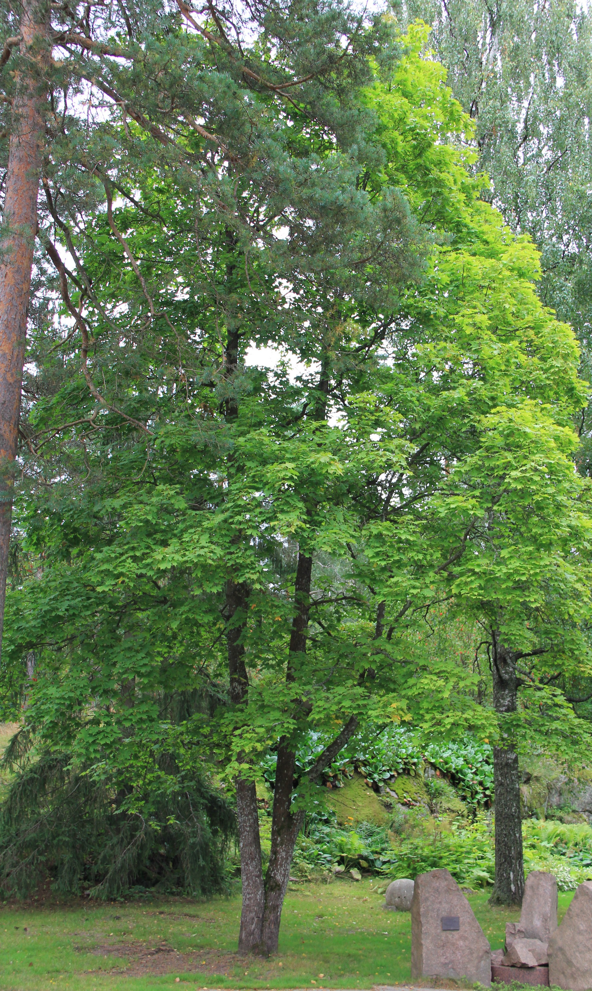 A memorial Quercus robur (Common oak) at Kauniala hospital, Kauniainen, Finland. - Planted in 2003.